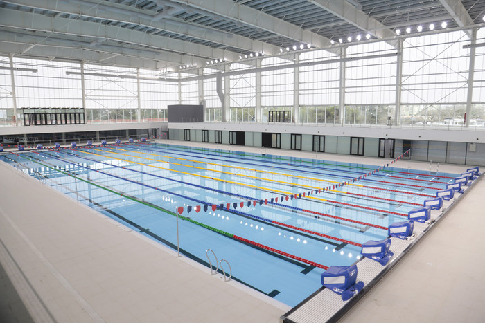 Swimming pools of the Youth Olympic Centre.